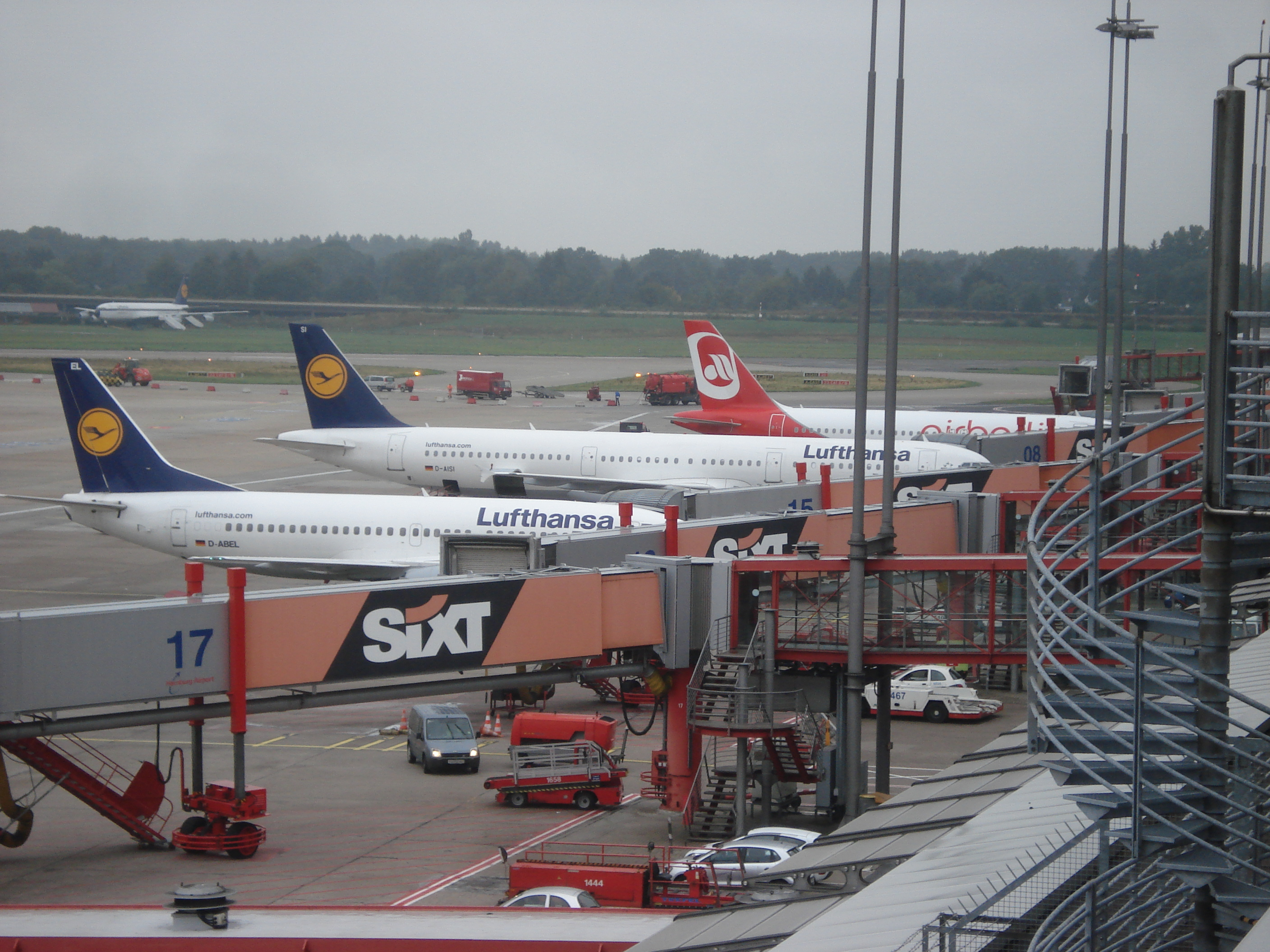 Lufthansa aircraft parked in front of Terminal 2 at Hamburg Airport